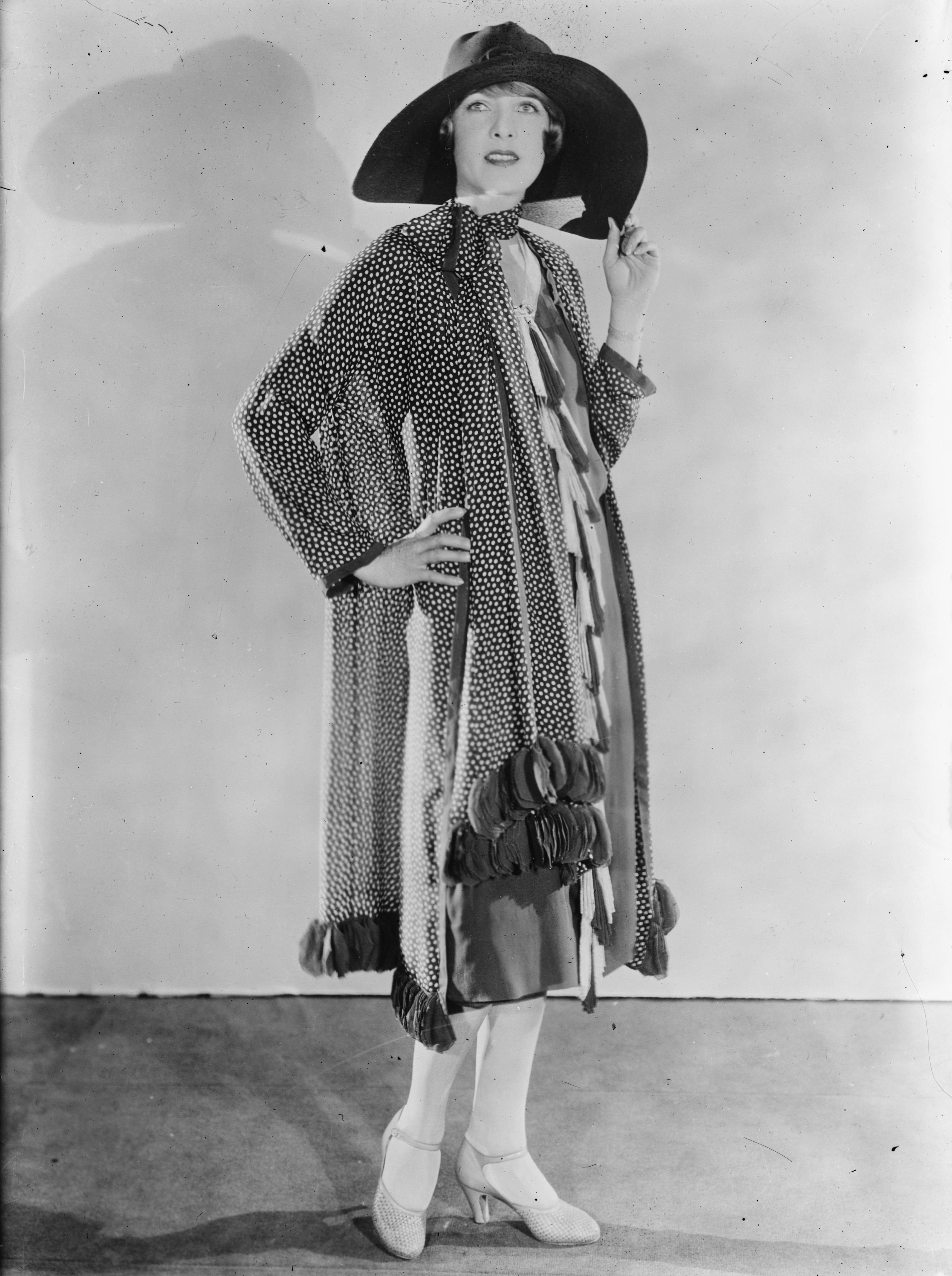 Actress Claire Windsor